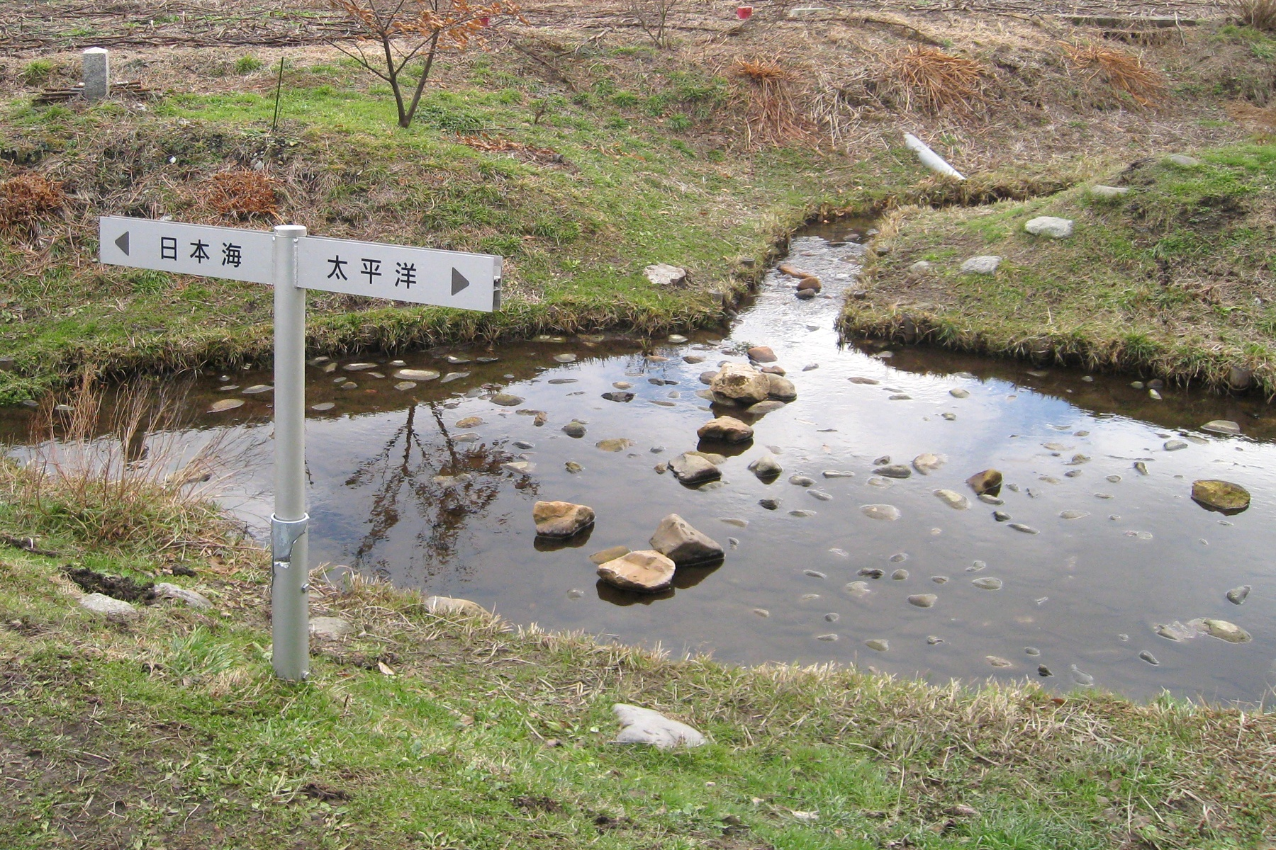 Drainage divide in the Pacific Ocean(right) and the Sea of Japan(left) near Sakaida Station, this photo taken in December 19, 2008